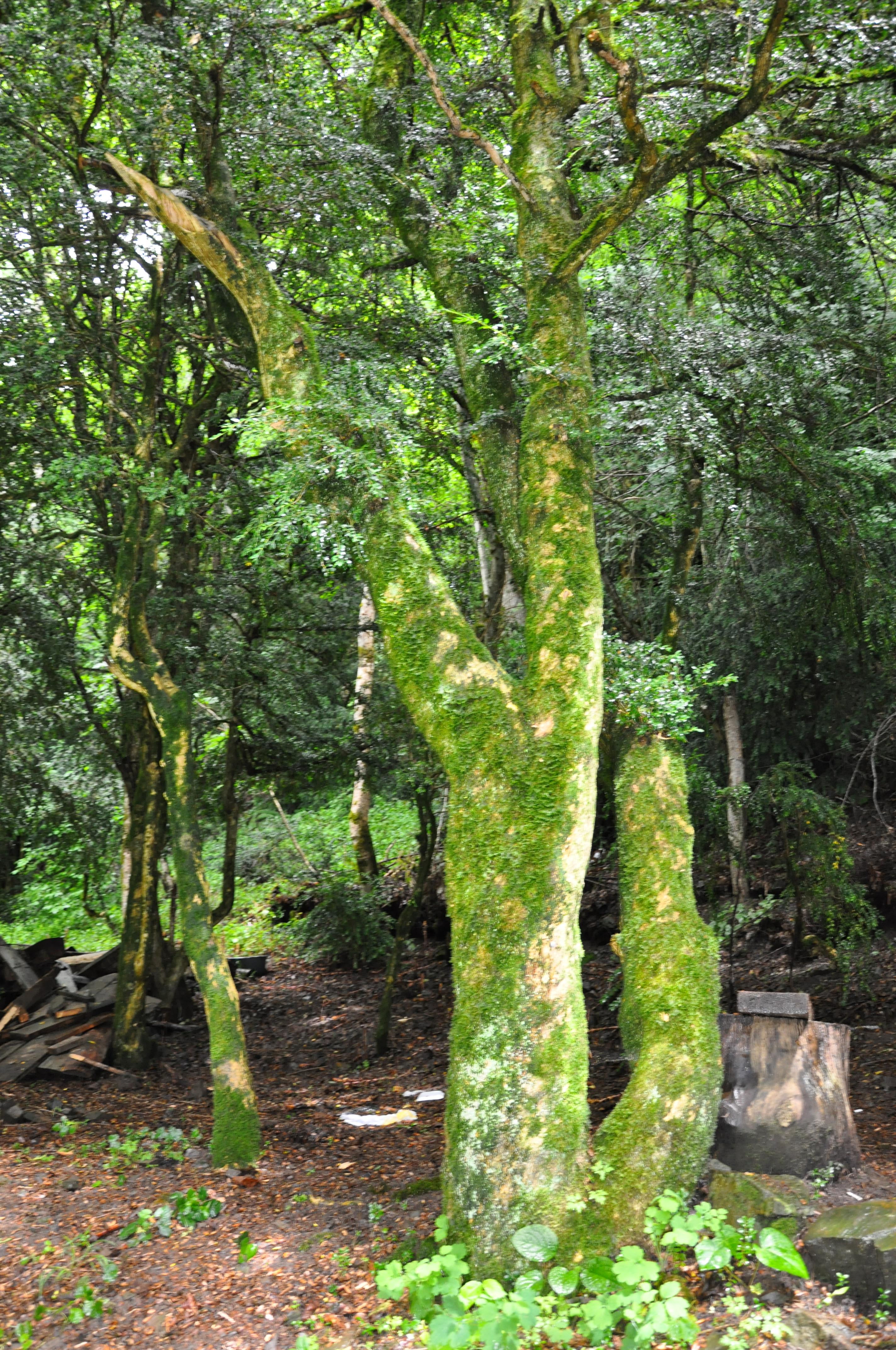 Taken in Racha, village Sori